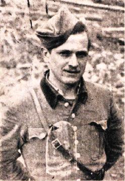 Dušan Remih-Duško (1922-1944), Slovene partisan